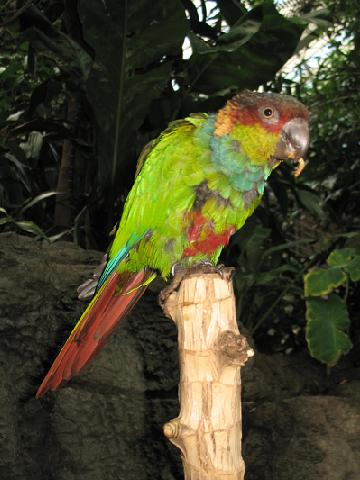 Description: Blue-chested Parakeet Pyrrhura cruentata - Source: own work - Location: Central Park Zoo, New York - Author: self, User:Stavenn